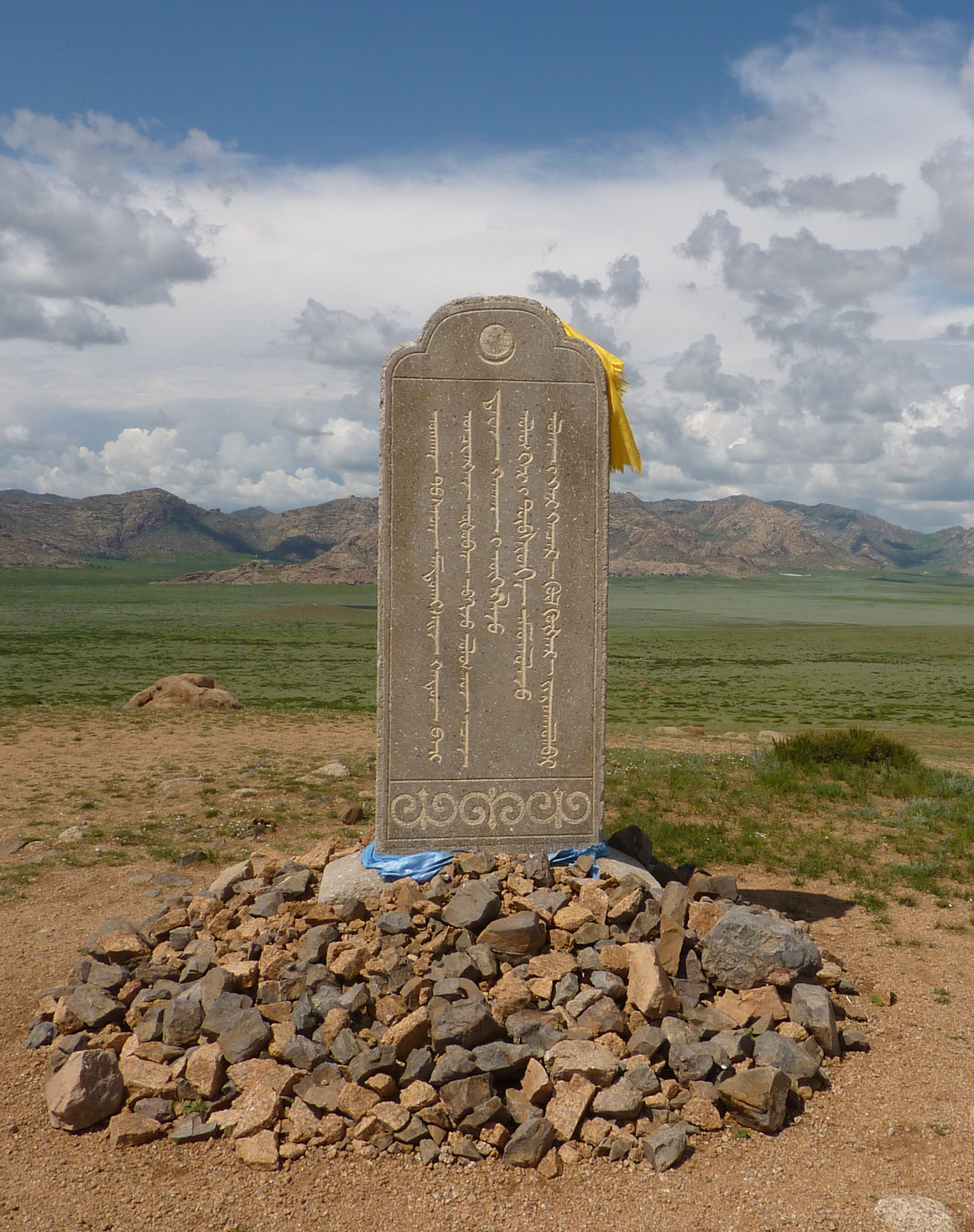 Stele for Mandukhai Khatun, erected after the movie (Khogno Khan, Mongolia)